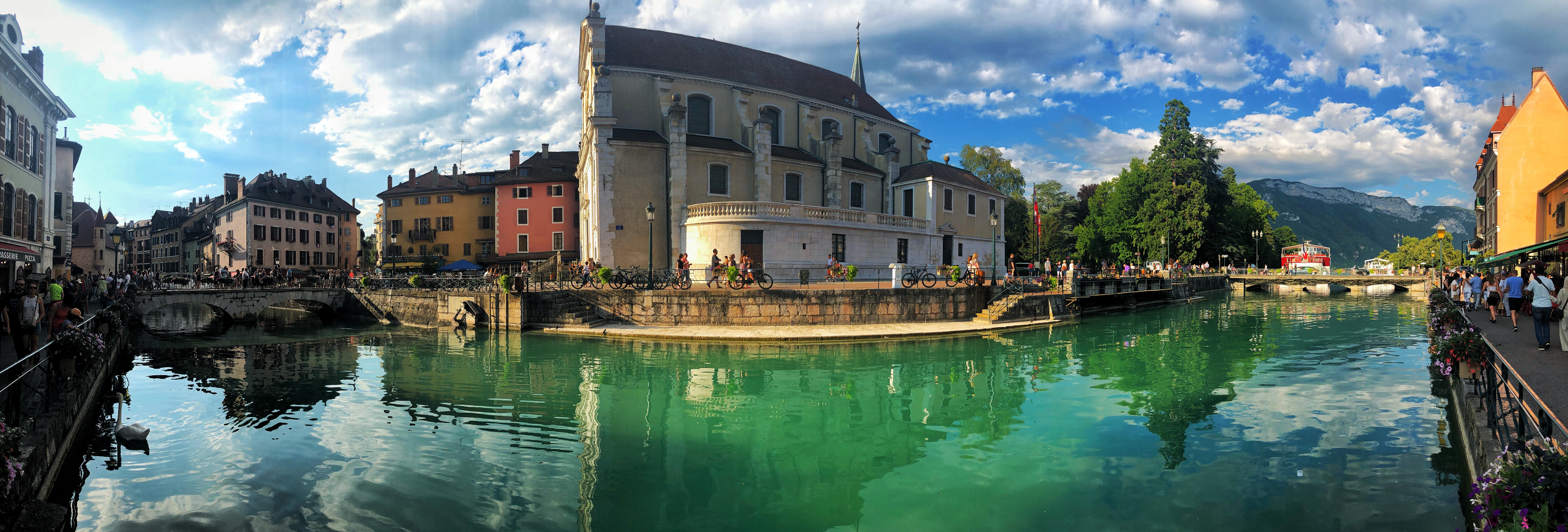 A panoramic image showing the Annecy old town as of July 2018